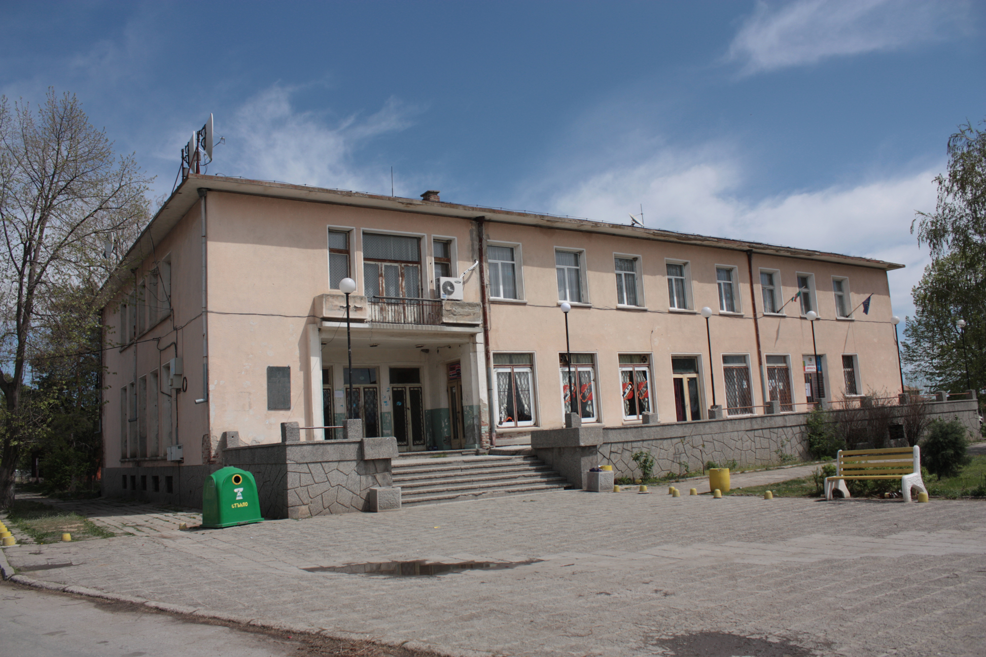 Municipality house in Dinkata village, Bulgaria